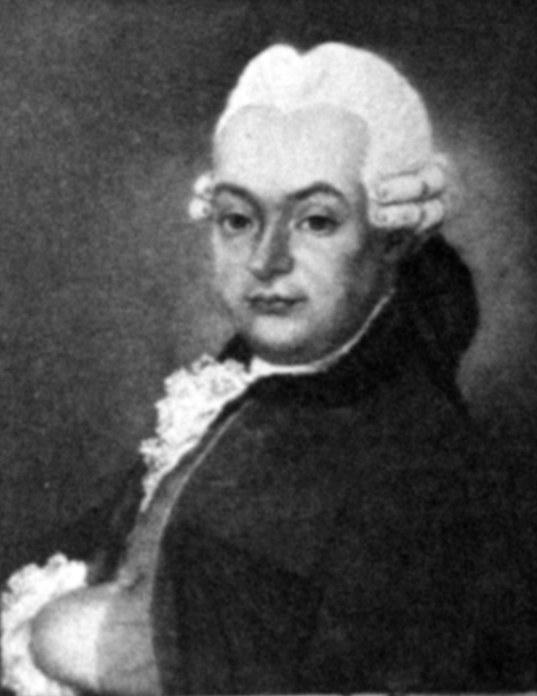 Portrait of Olof Bergklint (1733-1805)